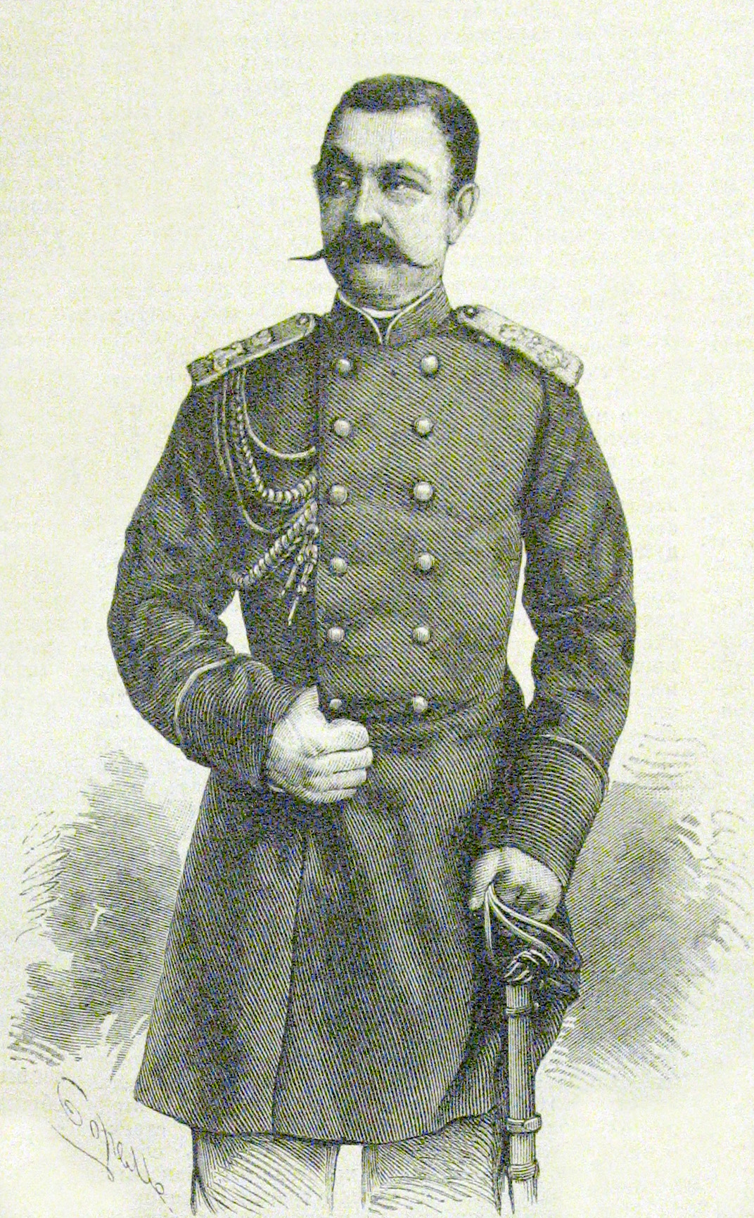 Портрет Н. В. Мезенцова